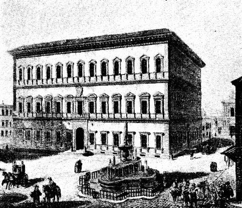 Palazzo Farnese. 19th century view by